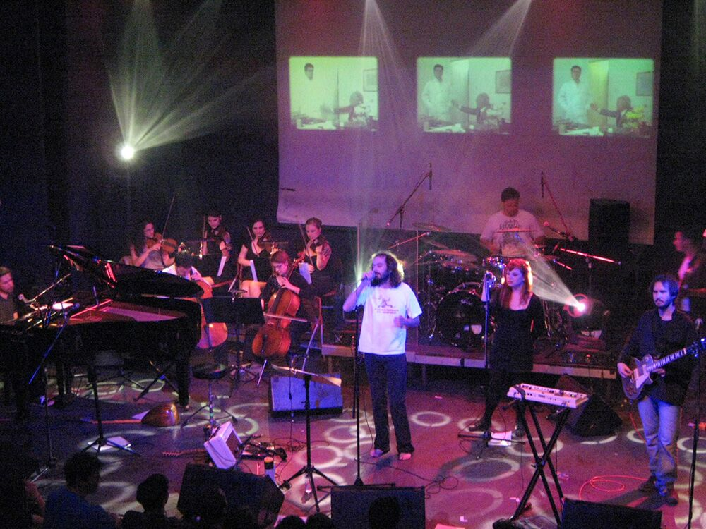 Kore. Ydro. live in 2010.